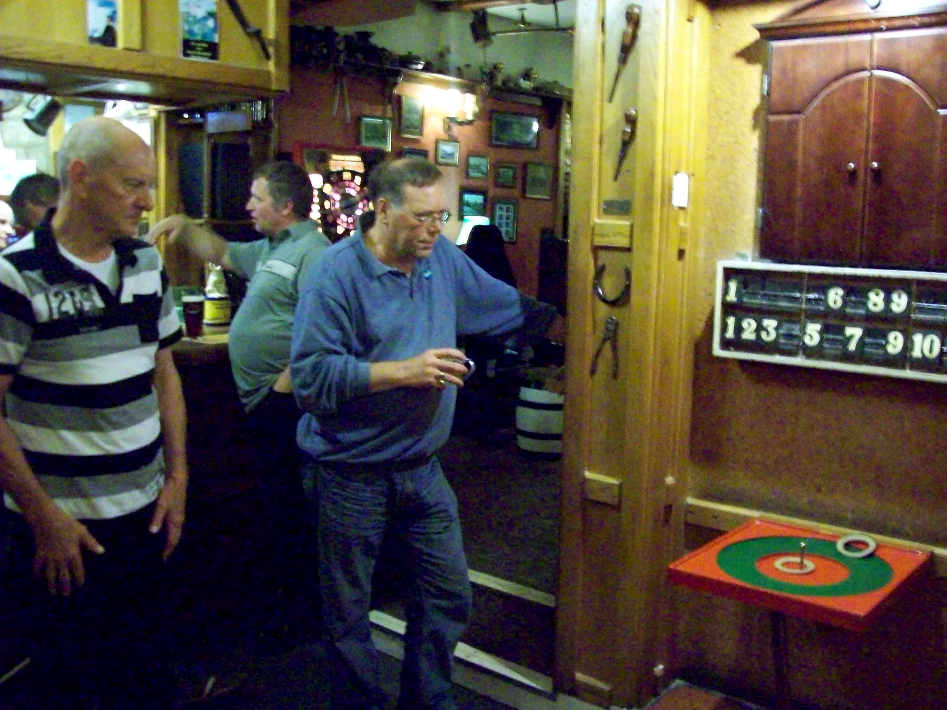 Indoor Quoits, or Table Quoits, being played at The Fountain Inn, Parkend, Gloucestershire